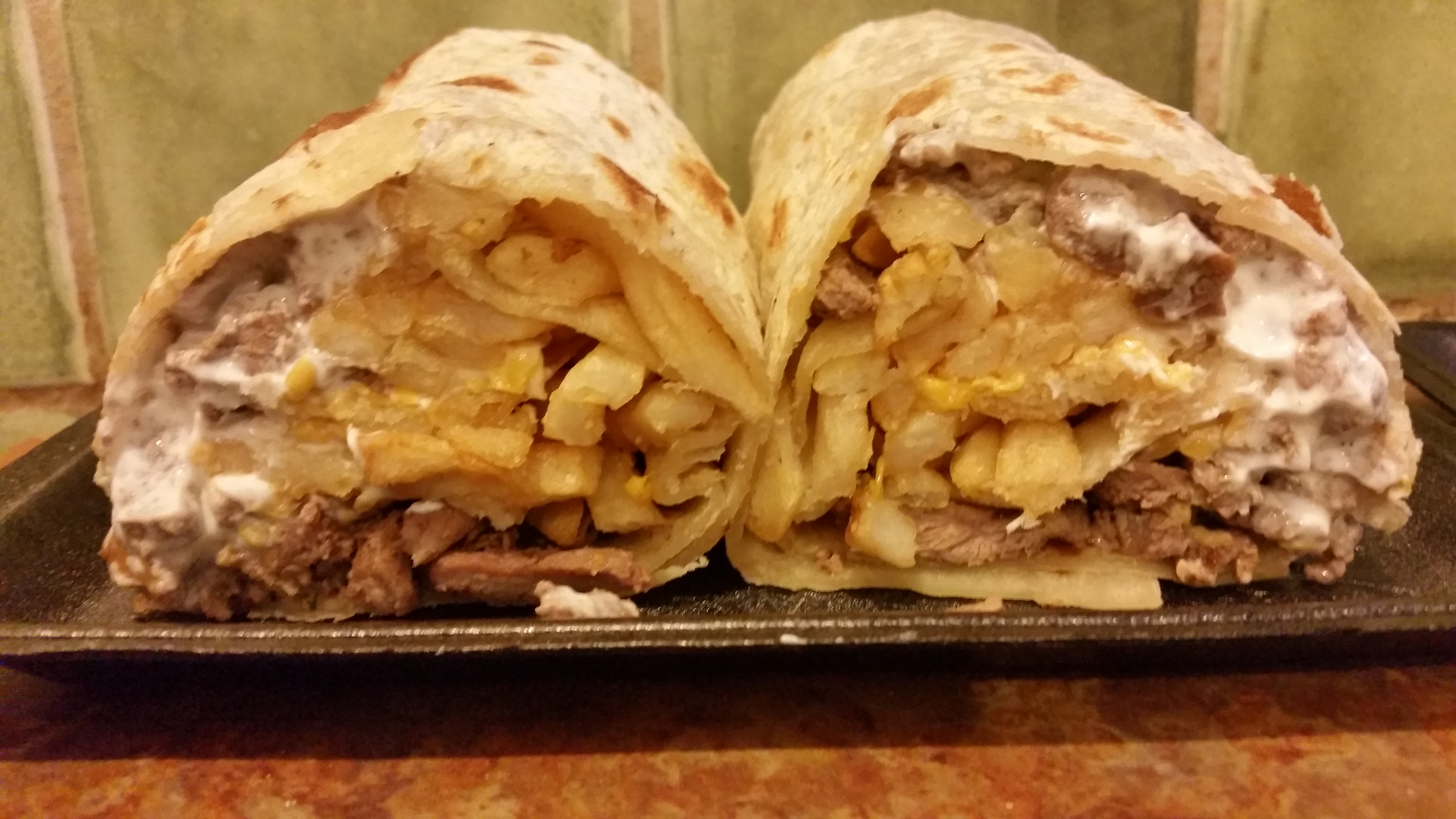 A picture of a California burrito cut in half.